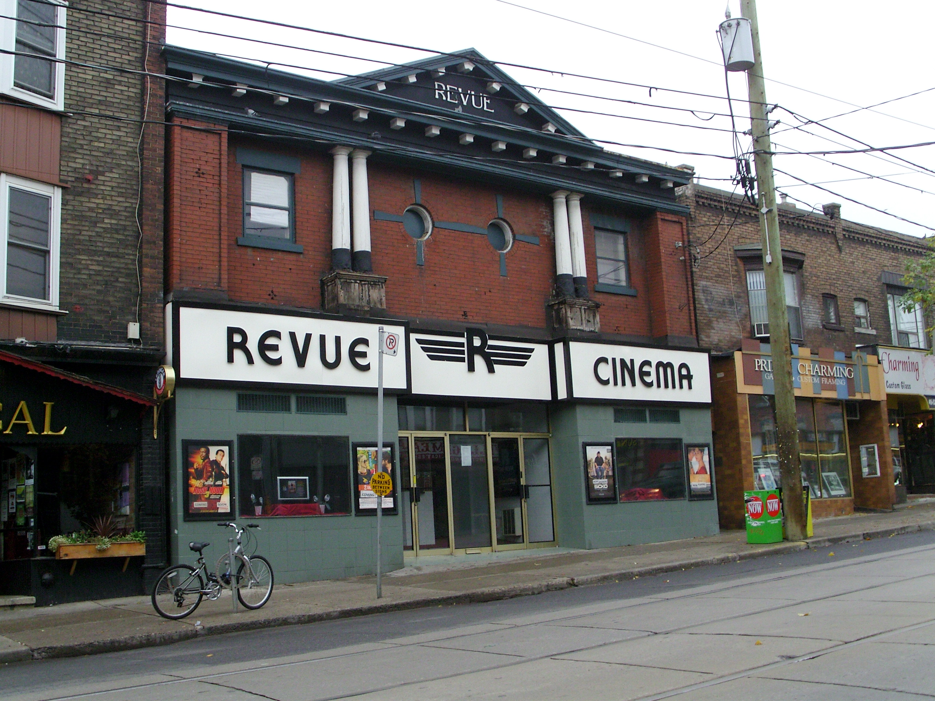 Front of Revue Cinema showing temporary signage